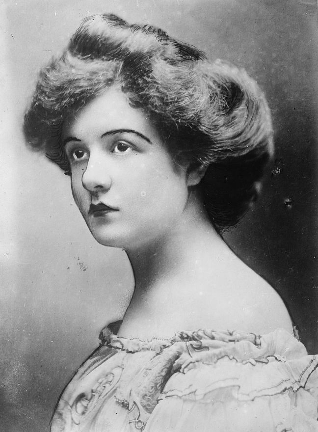 Photo of Ruth Maycliffe taken circa 1910 and published in 1914 by Bain News Service.